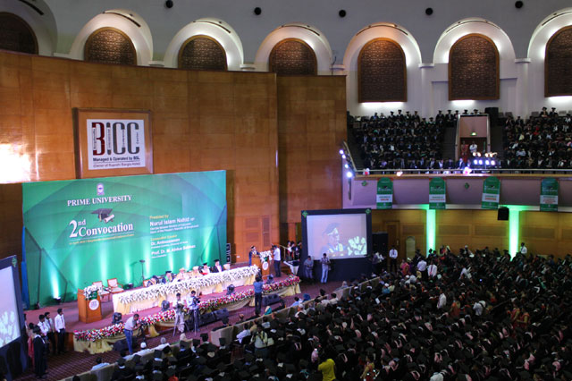 It's the latest convocation of PU held on 2016 at BICC, Dhaka.